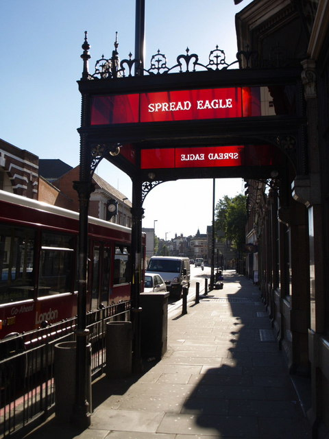 Porch, Spread Eagle, Wandsworth. The splendid Victorian pub, diagonally opposite 20228 in the town centre, dates from 1898, but this striking entrance is later.